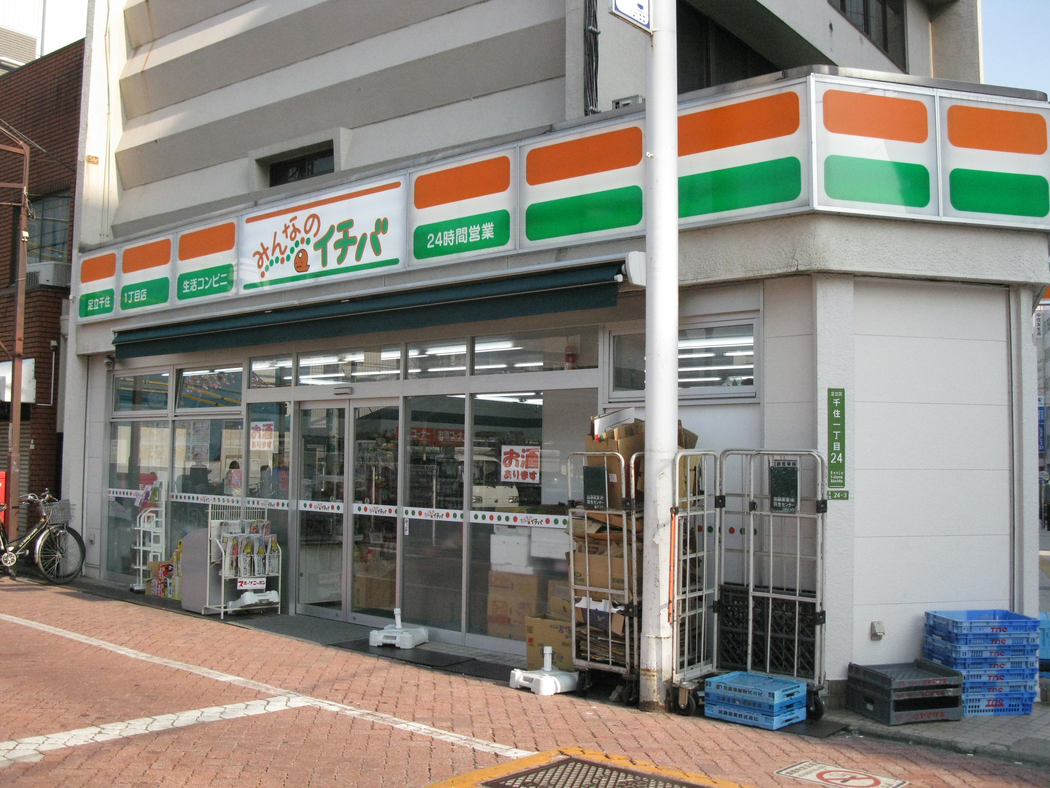 A convenience store "99 ichiba"